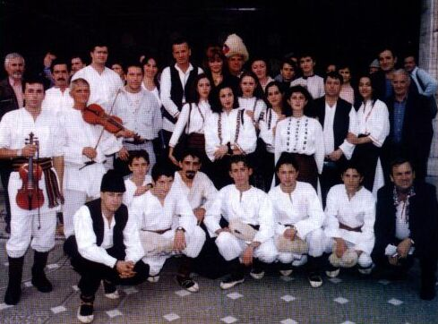 Gruppo folkloristico dei VLASI della Serbia orientale. Folkloristic group of Vlasi (called: Jabukovac dancers) in Serbia (Timok valley) from Jakubovac village. source: personal photo taken at Serbian festival in 2002. author: B. D'Ambrosio